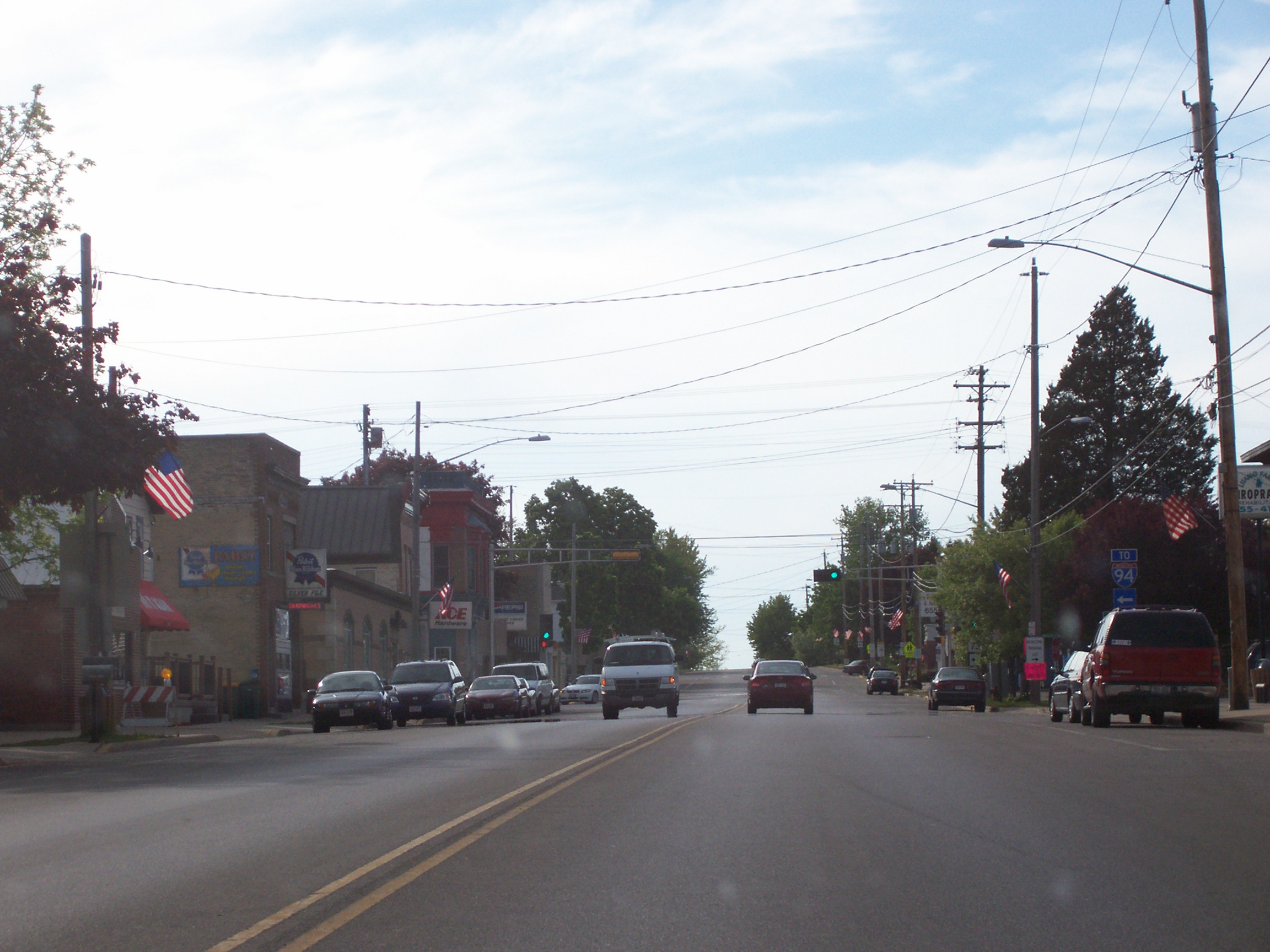 Looking west at downtown Marshall, Dane County, Wisconsin while traveling on Wisconsin Highway 19 / Wisconsin Highway 73.